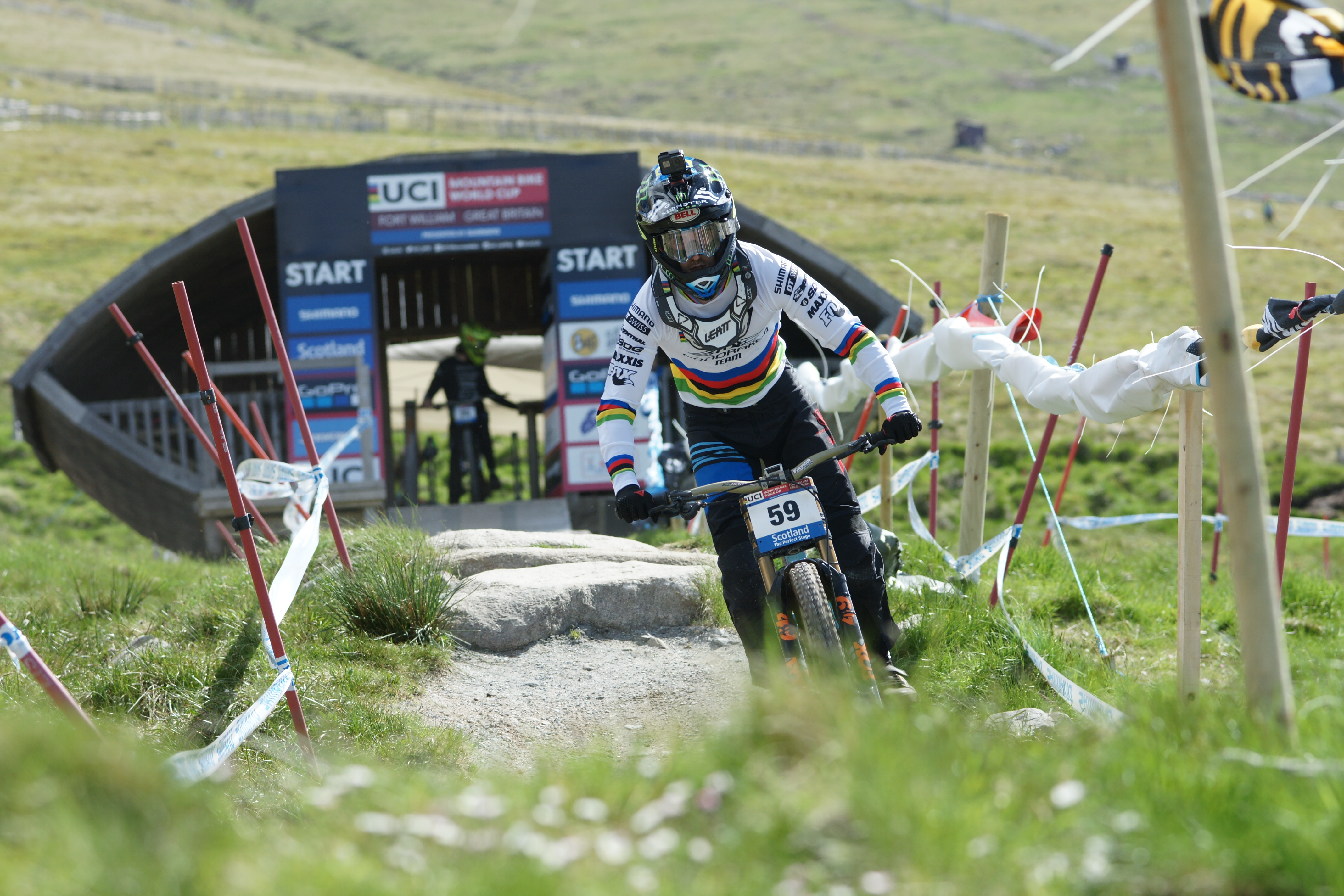 Danny Hart leaving the start gate at the 2017 UCI Downhill World Cup championships at Fort William, Scotland. Timed practice run.